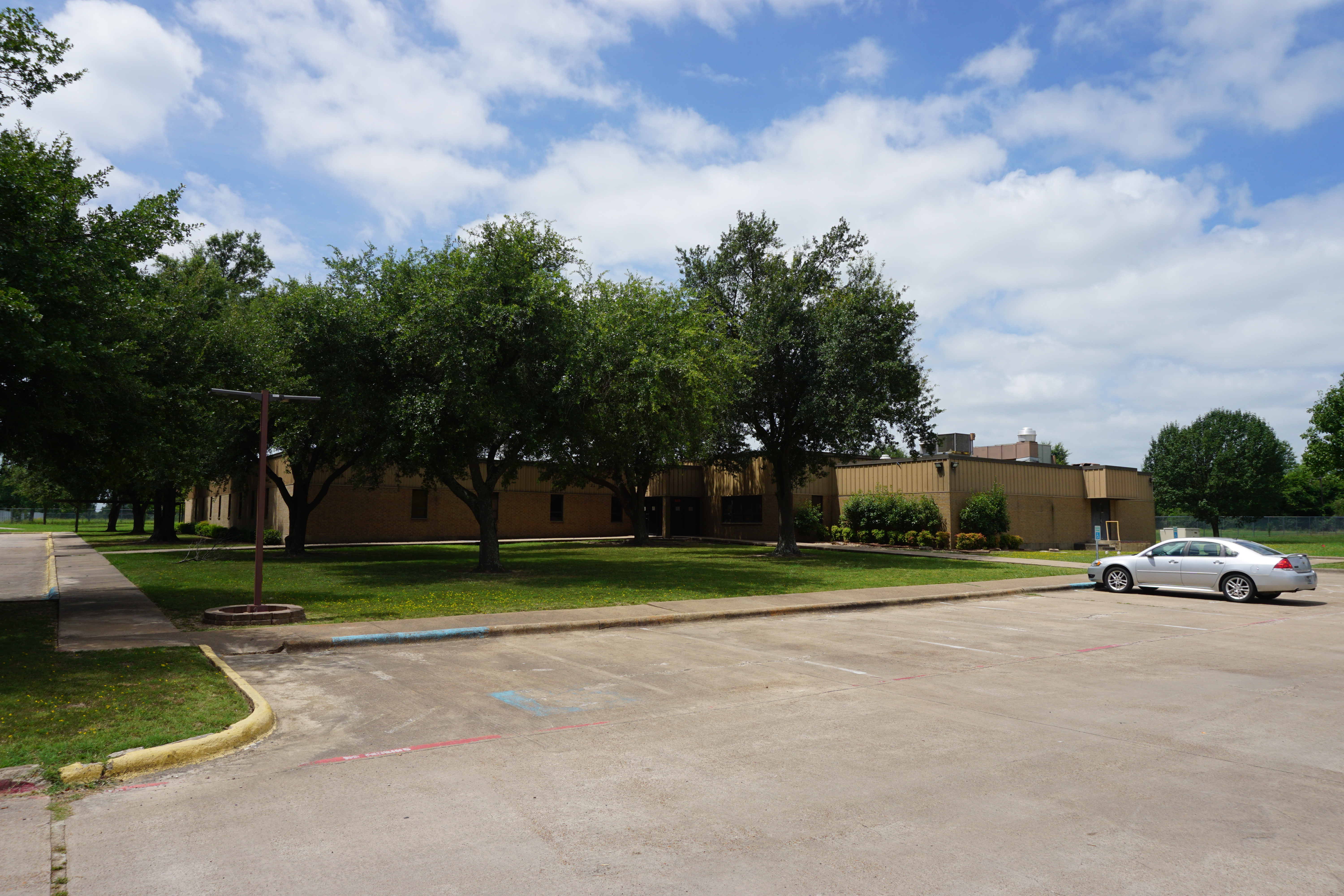 The Commerce ISD Central Administration Building in Commerce, Texas (United States).